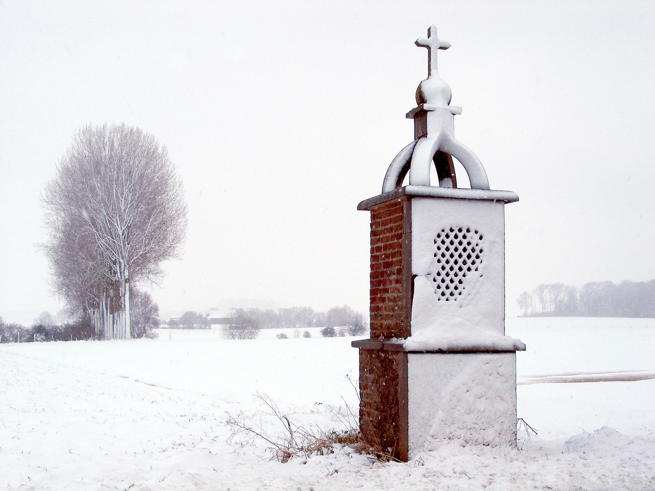 Thieusies (Belgium), "rue du Sirieu" (in the way to Soignies) - The Infant Jesus of Prague chapel (Family Marbaix-Greuze - 1911).